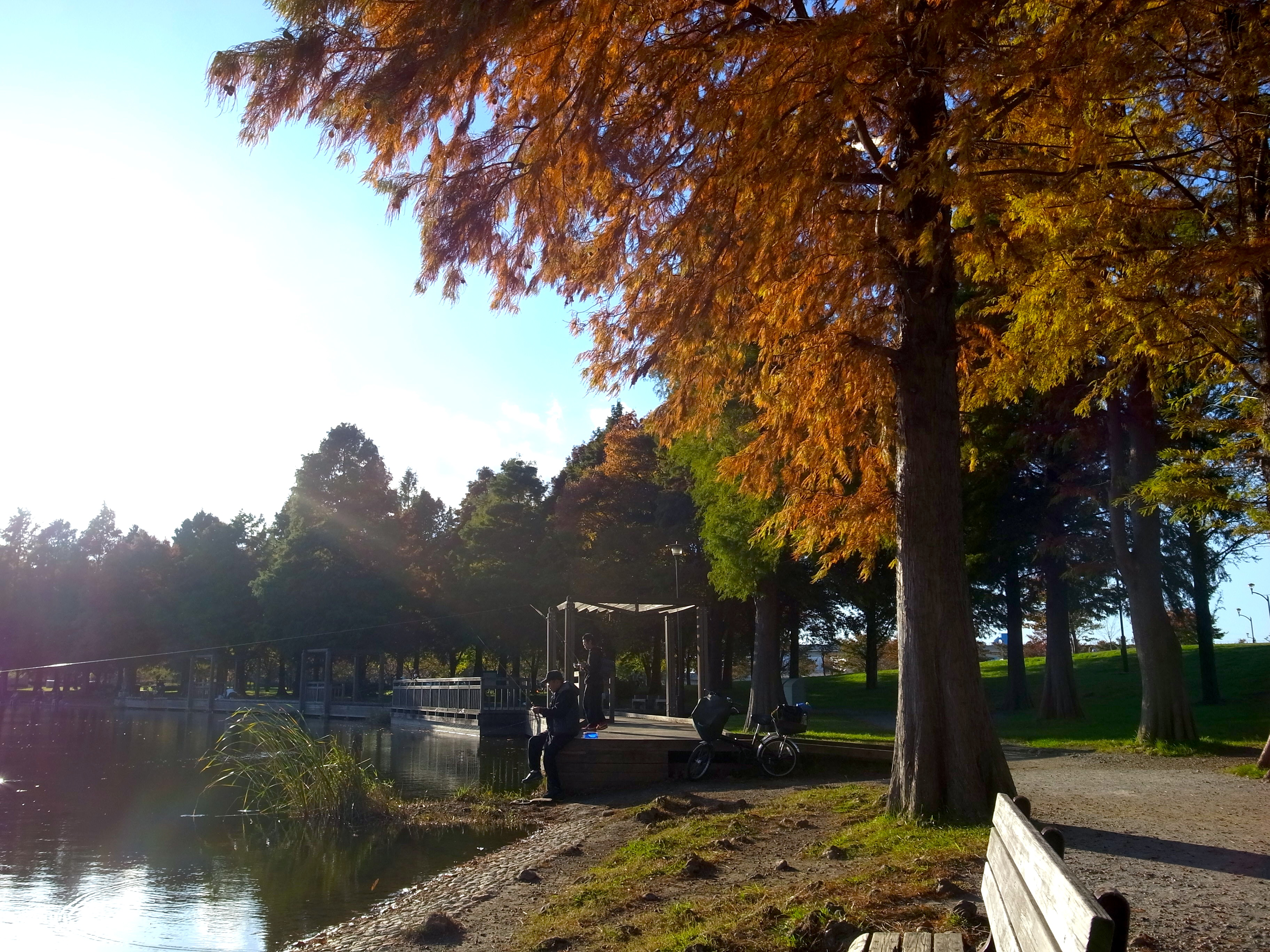 Autumn leaves at Toneri Park